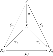 Commutative diagram for Inverse limit